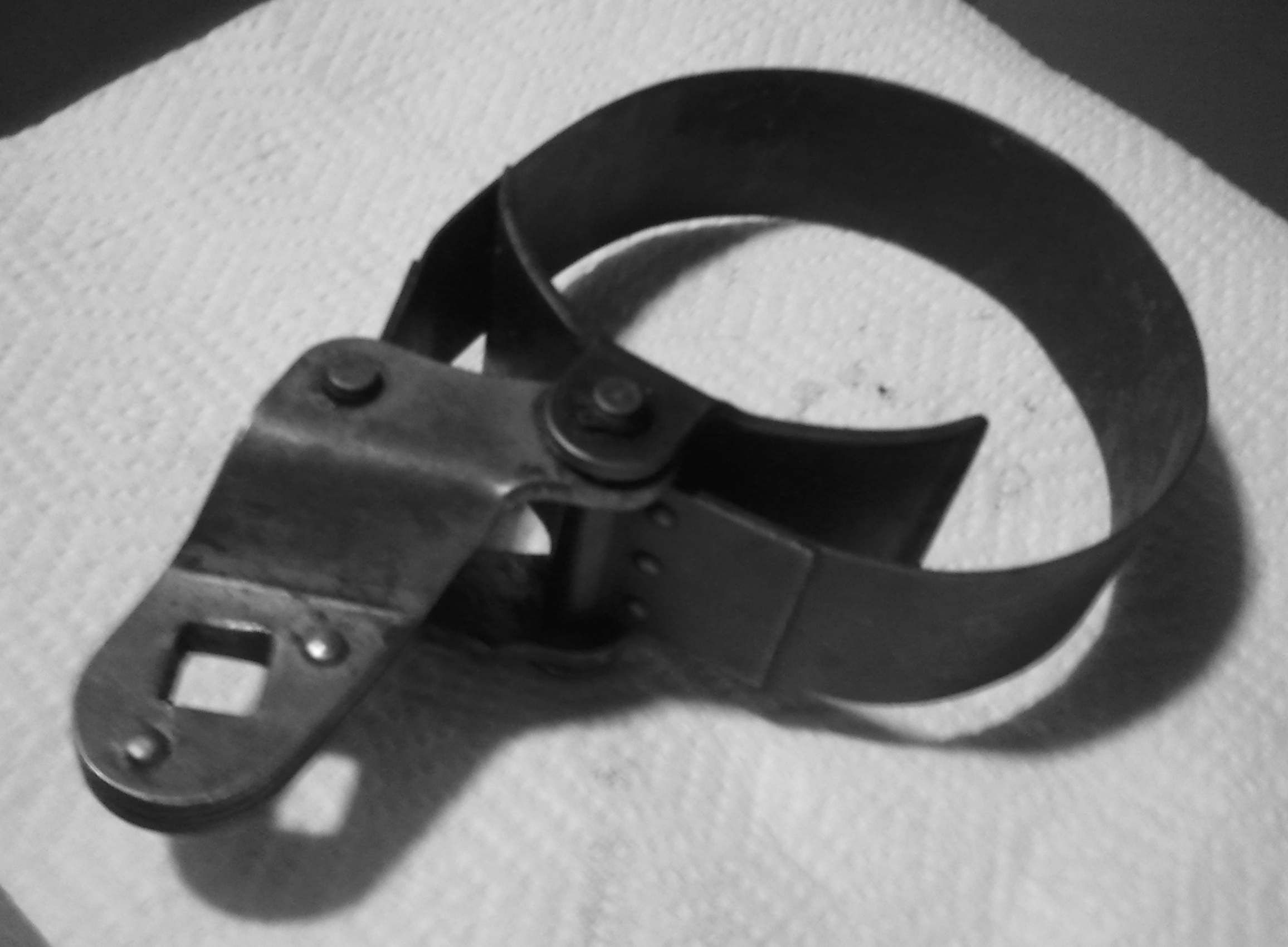 One of various types of oil filter wrench.